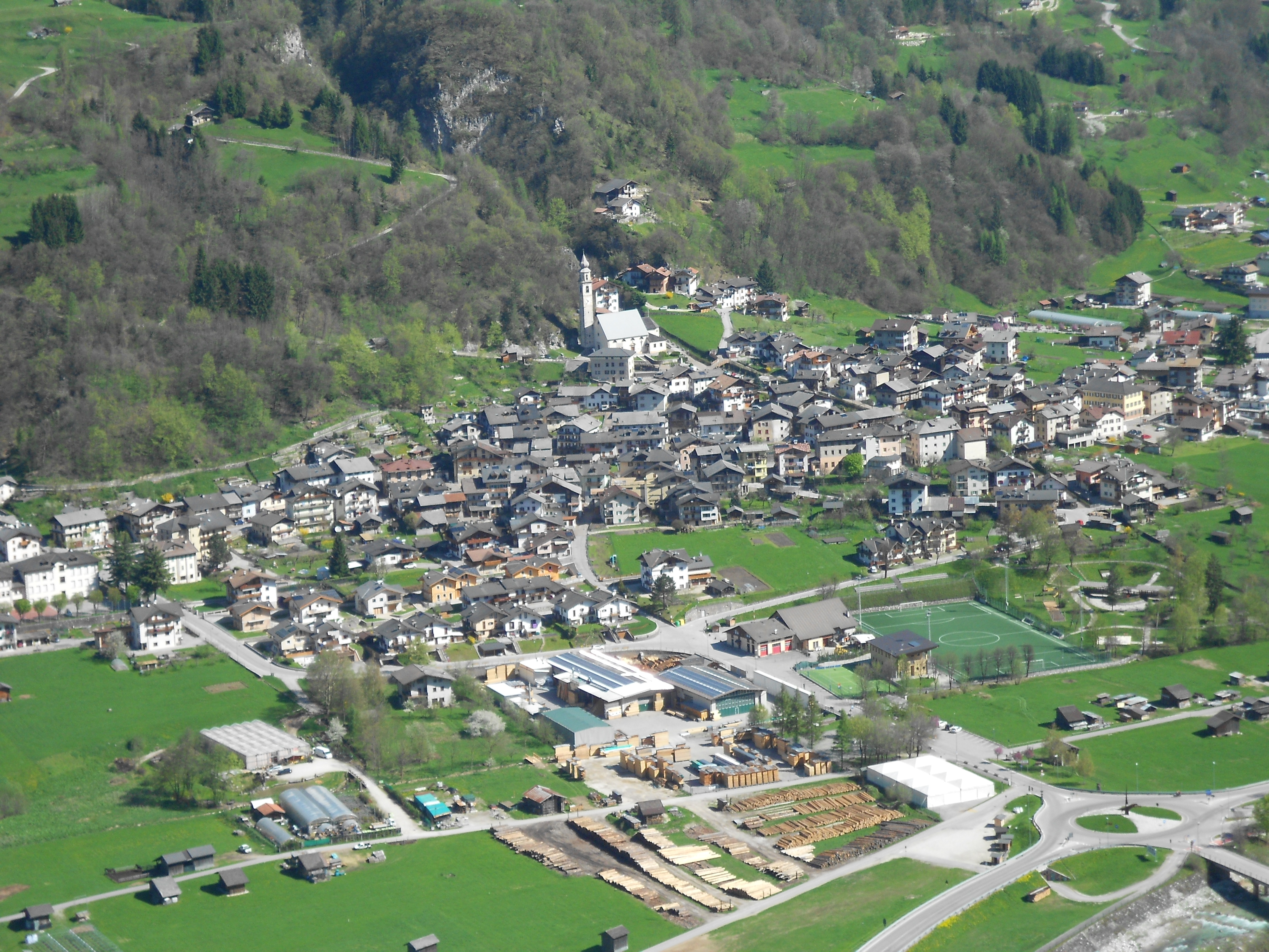 The village of Imèr